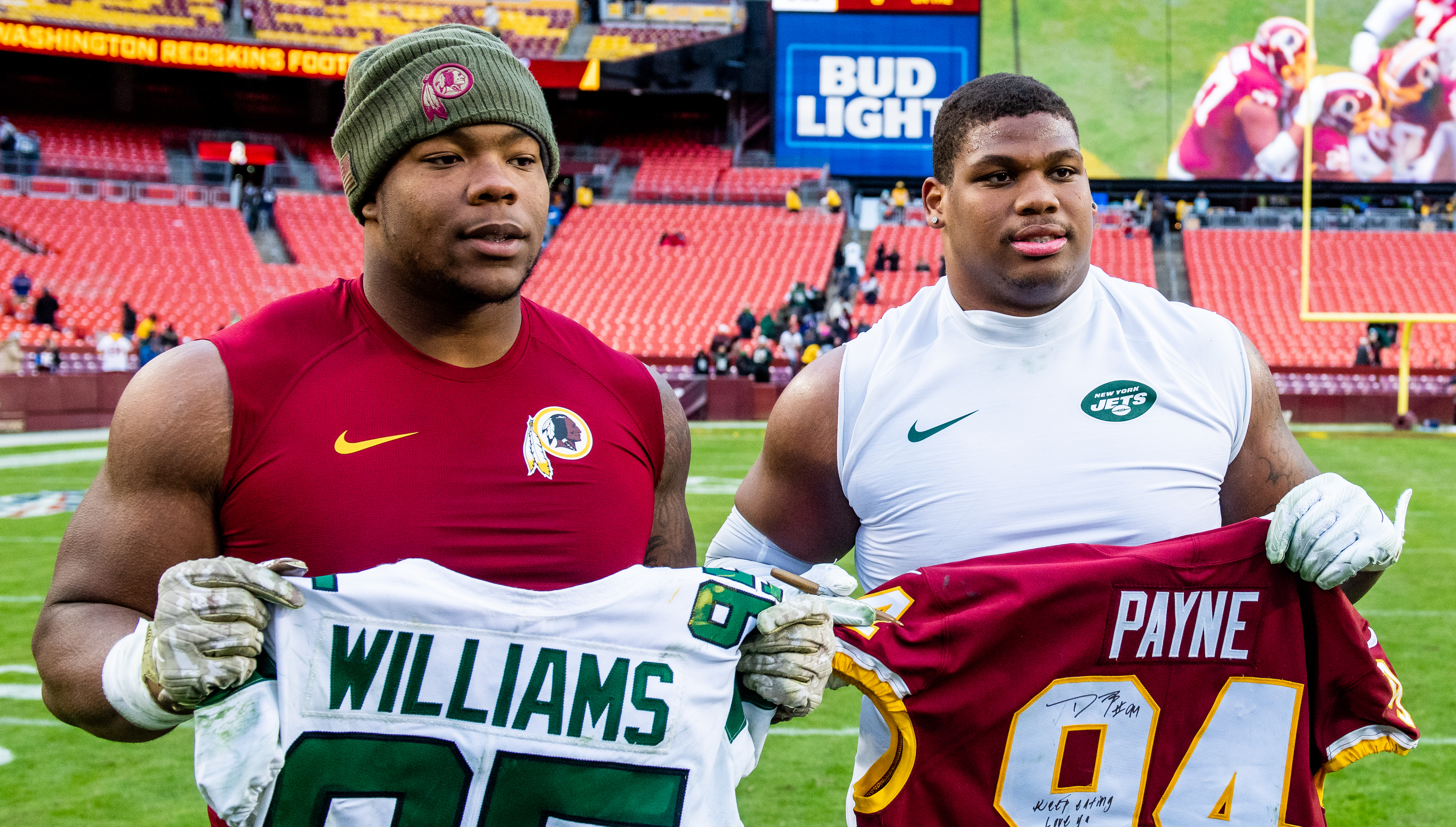 In 2019